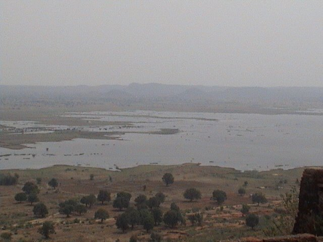 This is an image of Khindsi lake near Ramtek. It is very close to nagpur.